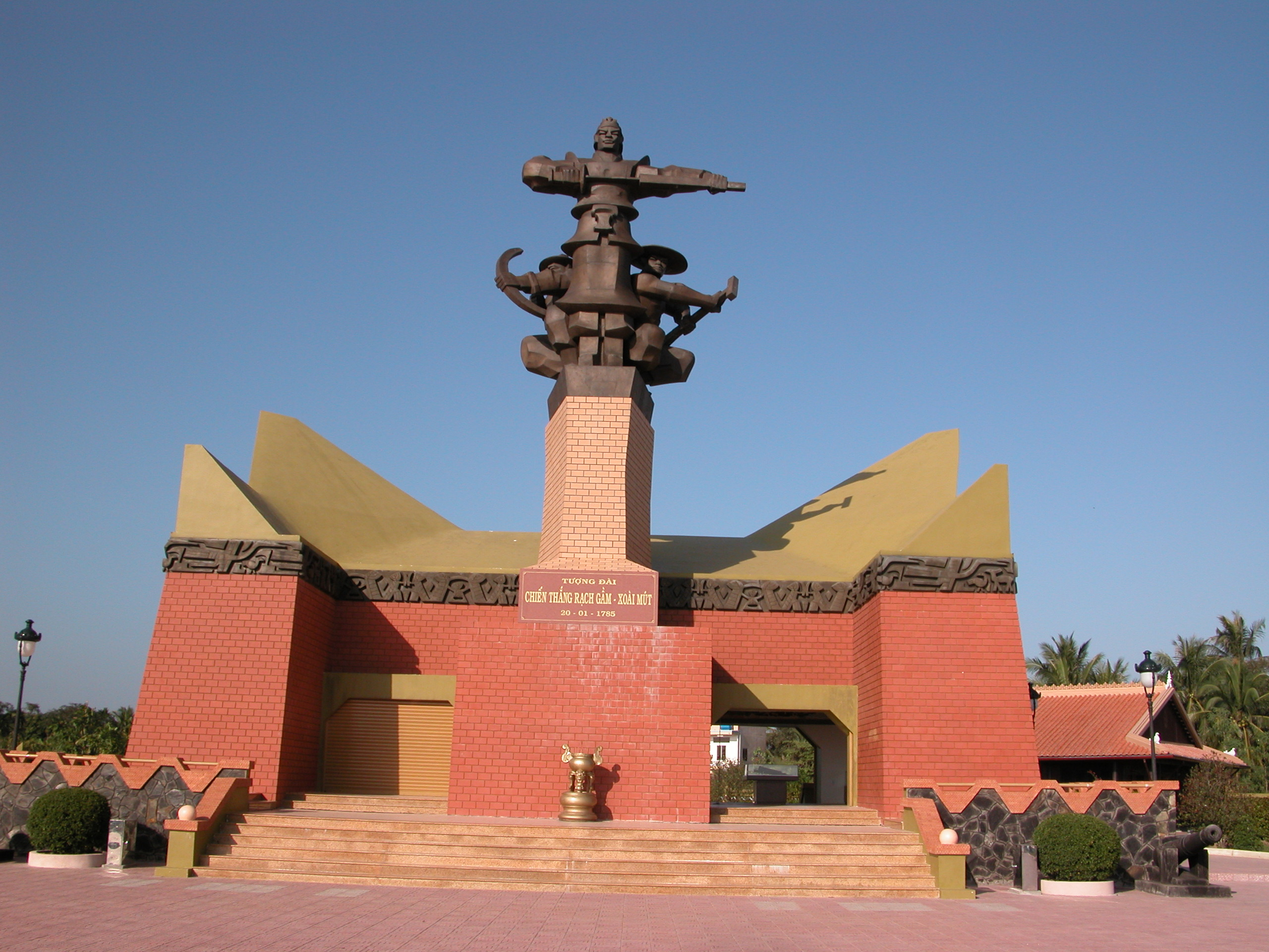 War memorial to the Battle of Rạch Gầm-Xoài Mút